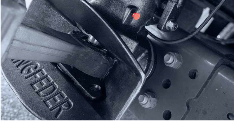 Ringfeder coupling side mounted